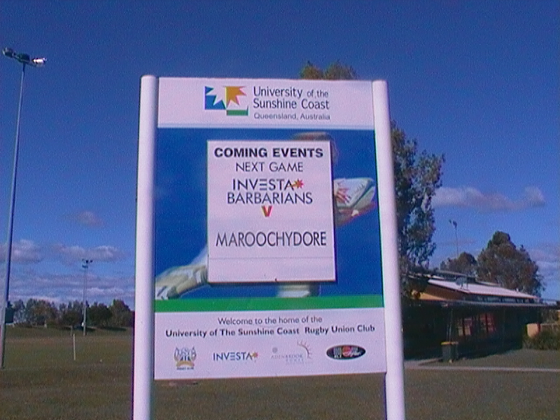 USC Rugby welcome sigin - vs. Maroochydore